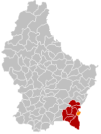 Own edit of Kanton RemichLocatie.png